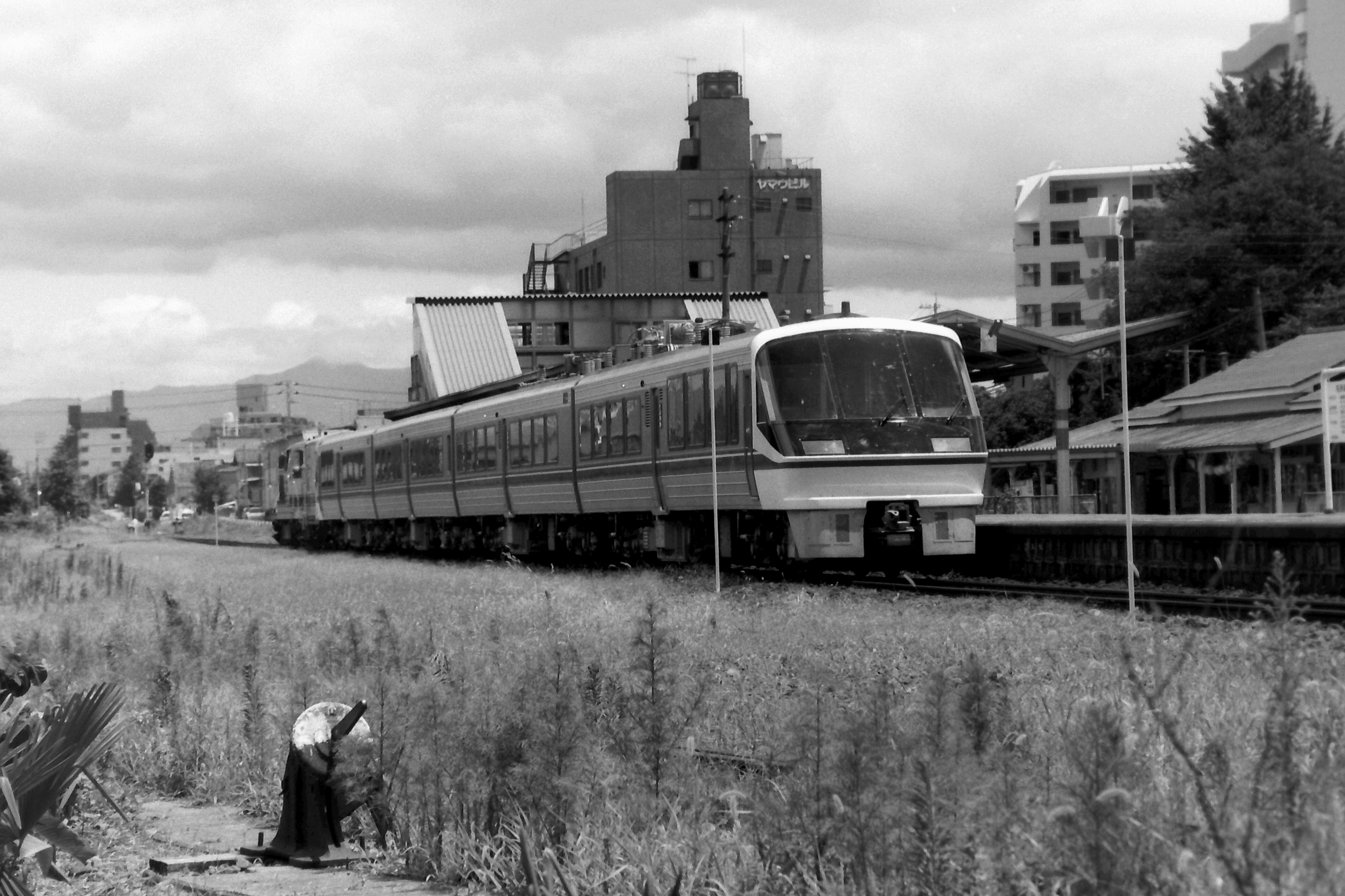 A local train formed of a JR Kyushu 783 EMU at Suizenji Station. Because the line was not electrified, a YO 28000 generator van was used to supply power, and the train was propelled by a Class DE10 diesel locomotive